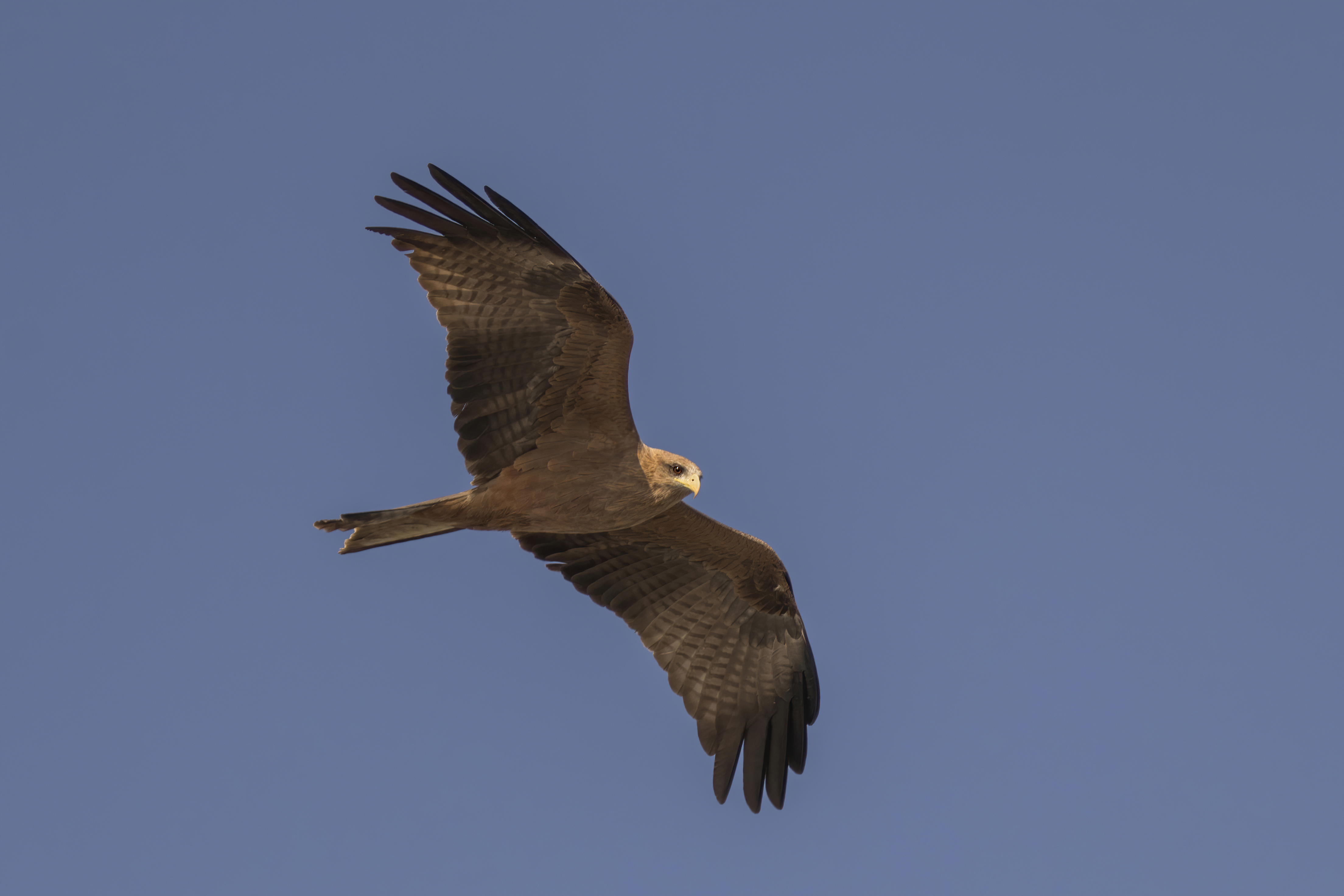 Yellow-billed kite (Milvus aegyptius aegyptius) in flight, Lake Ziway, Ethiopia